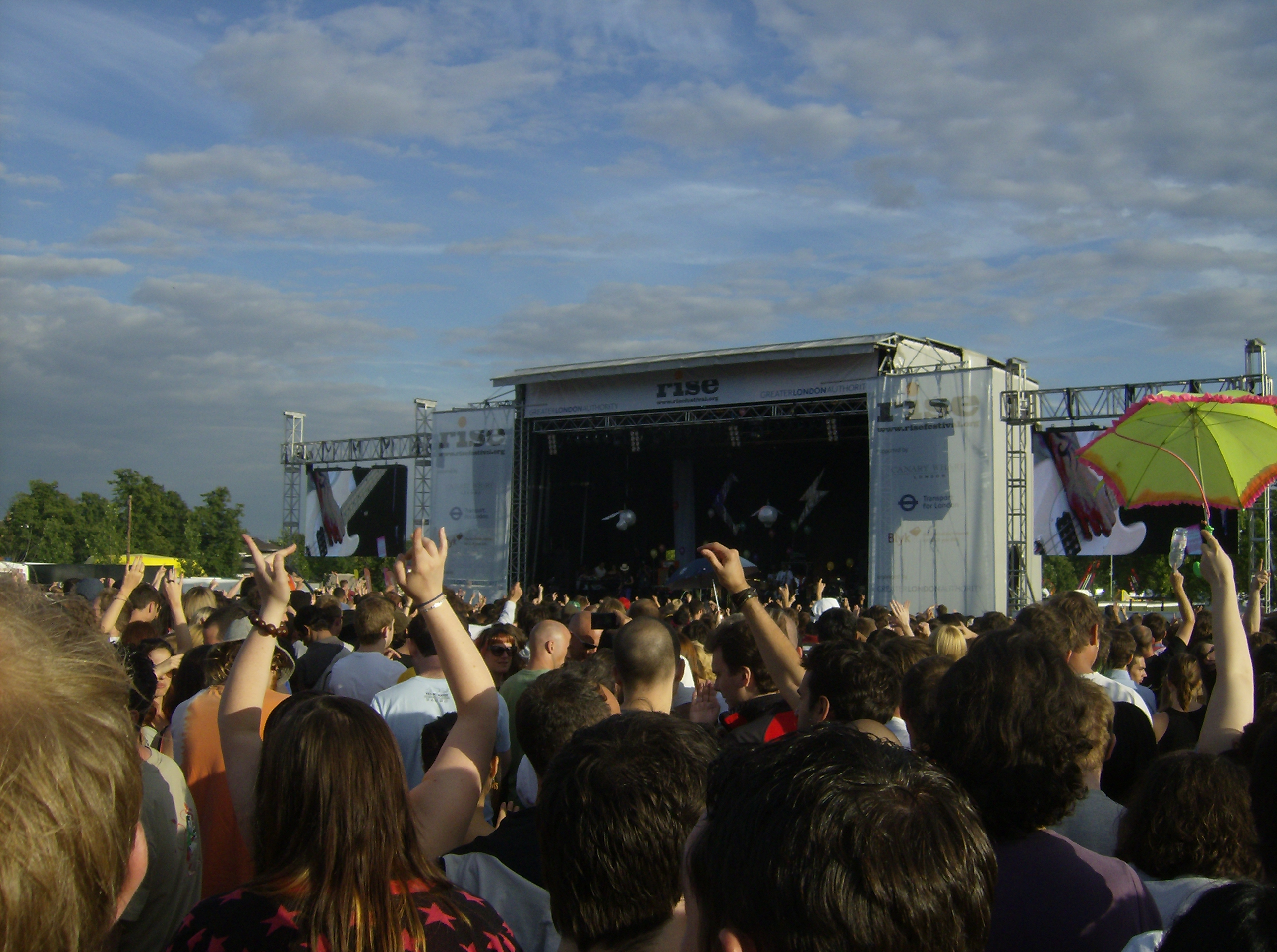 CSS perform at the free Rise Festival in Finsbury Park, London.